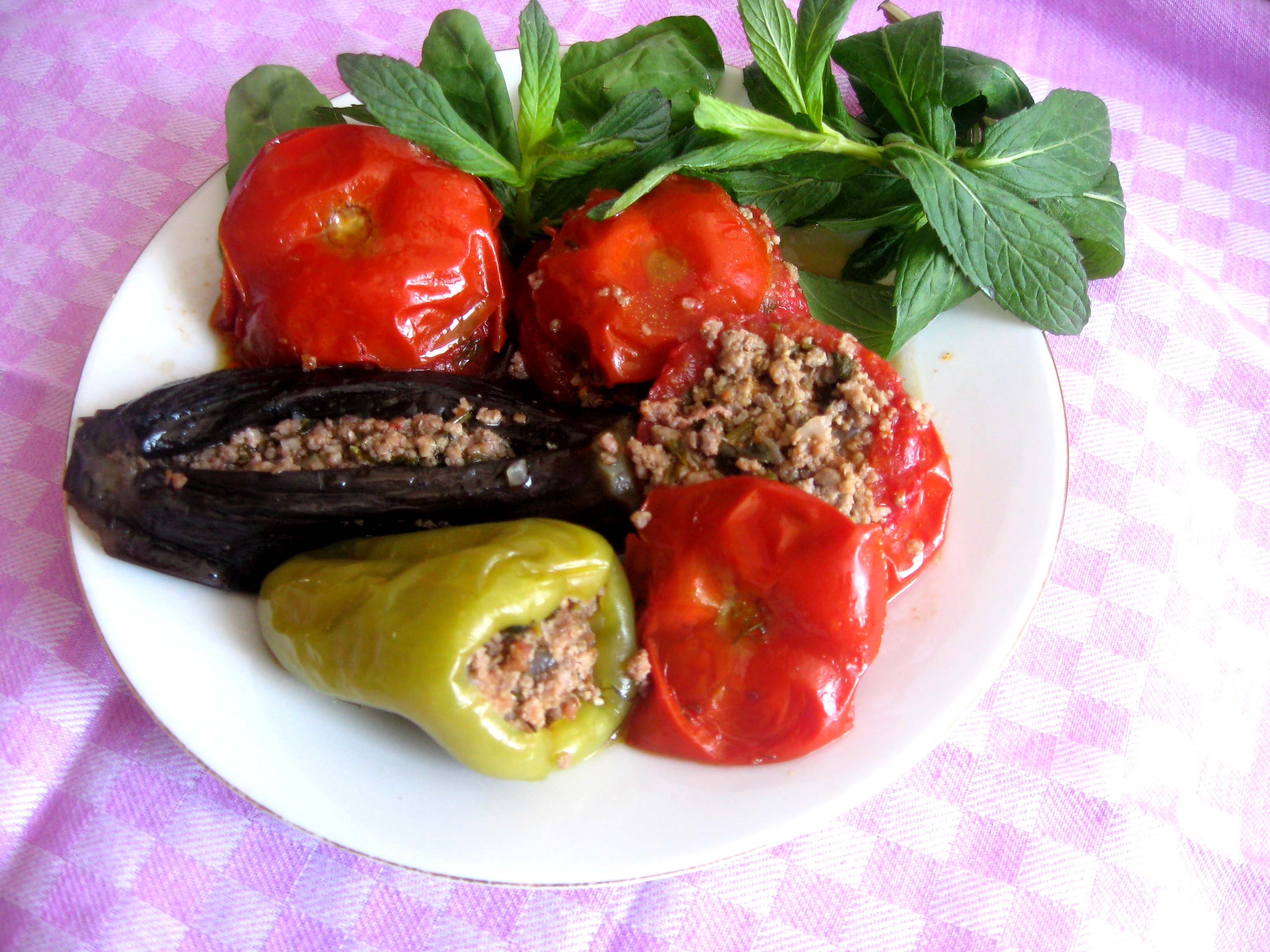 A tomato dolma. Azerbaijan national food, prepares from tomato.